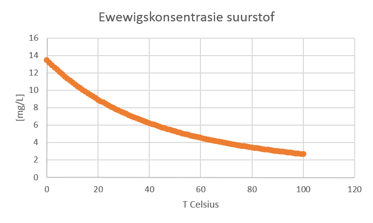 Equilibrium conc of O2 in water based on Henry constants 1.27 [mmol/atmL] ans 1650[K] Afrikaans version